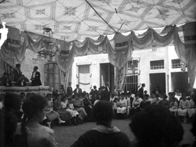 Inside of "Entoldado de Fiesta Mayor" in Arenys de Mar